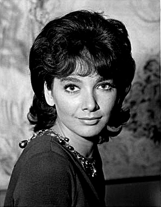 Original 7X9 black and white publicity photo of Suzanne Pleshette taken from the historic archives of Silver Screen Mementos. No copyright information shown